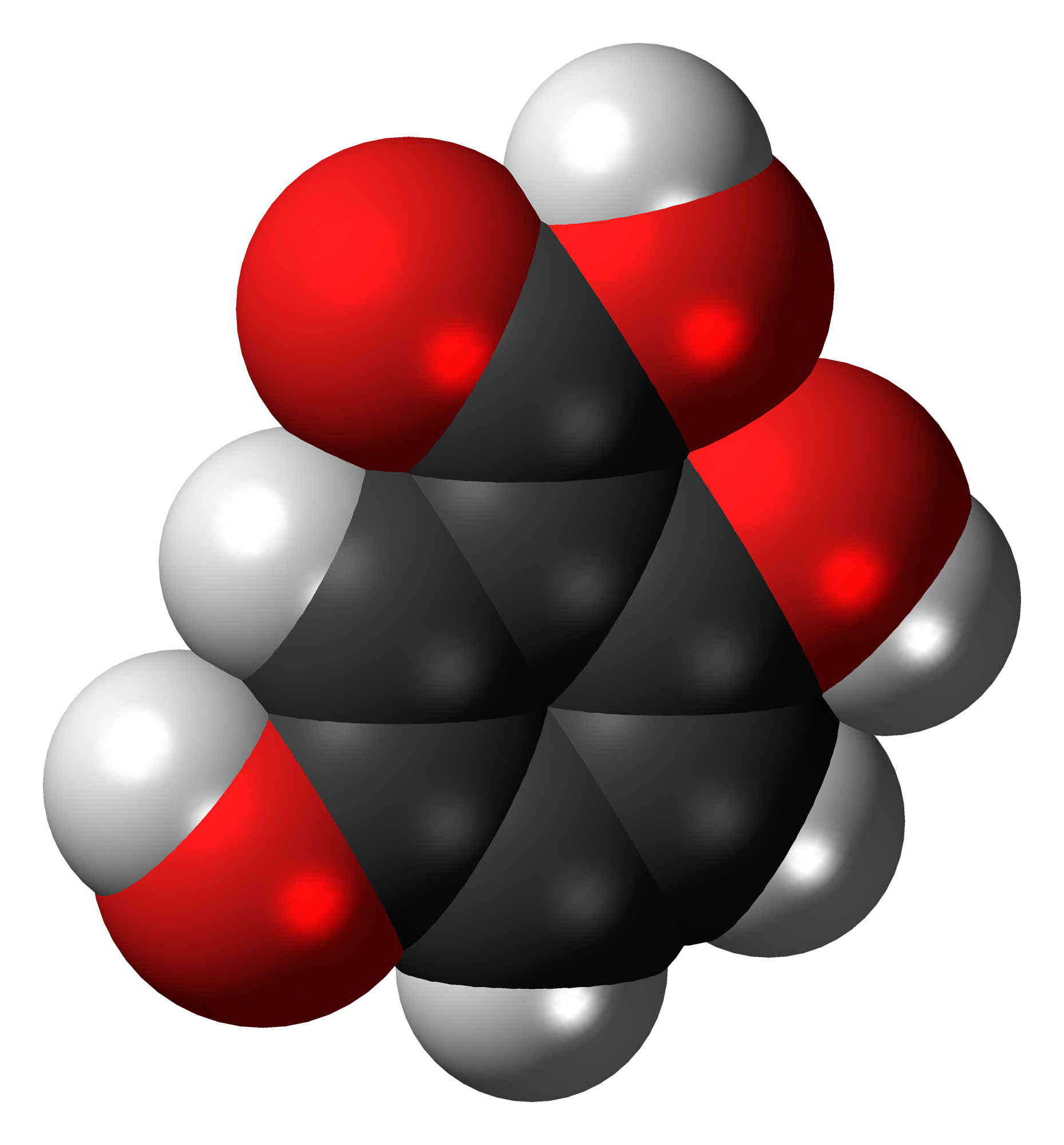 Space-filling model of the gentisic acid molecule, also known as 2,5-dihydroxybenzoic acid. Colour code: Carbon, C: black Hydrogen, H: white Oxygen, O: red